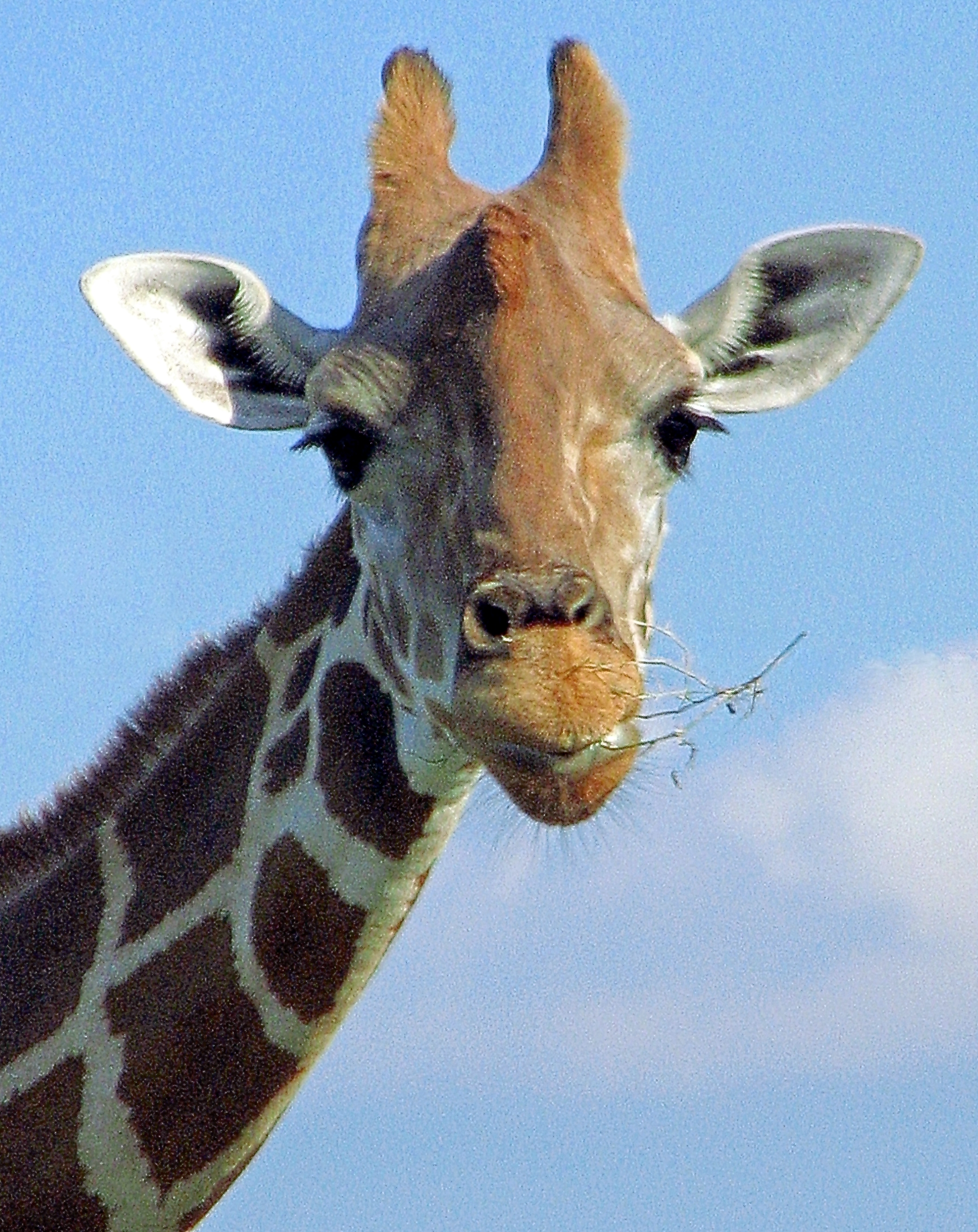 An adult giraffe at Lion Country Safari in Florida, USA